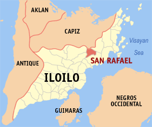 Map of Iloilo showing the location of San Rafael